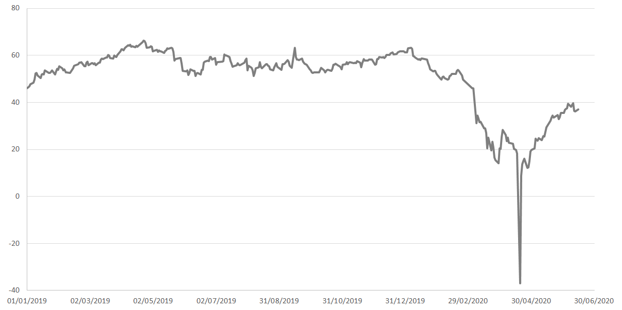 Daily spot prices of WTI crude oil per barrel between 1 January 2019 and 15 June 2020 as traded in the New York Mercantile Exchange